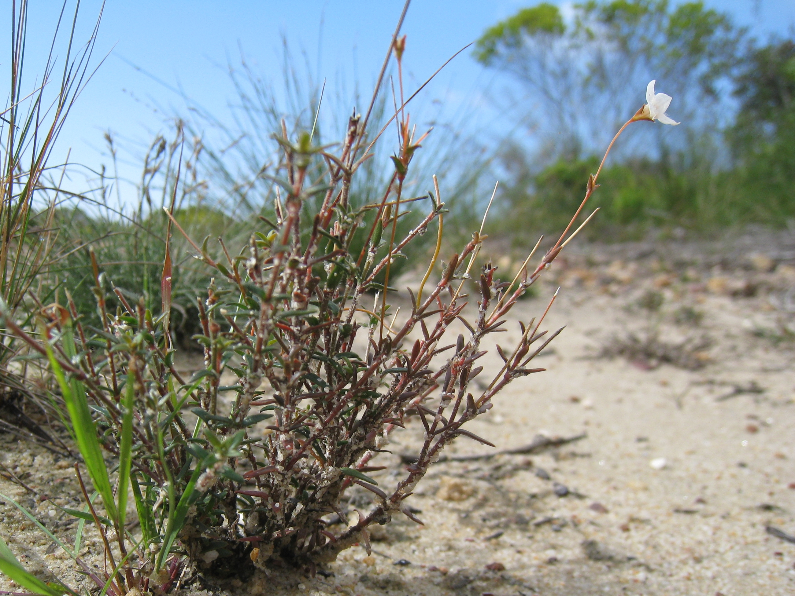 Probably Mitrasacme polymorpha. Royal National Park, NSW Australia, March 2011.